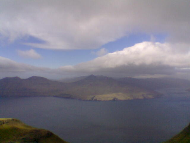 View from Streymoy